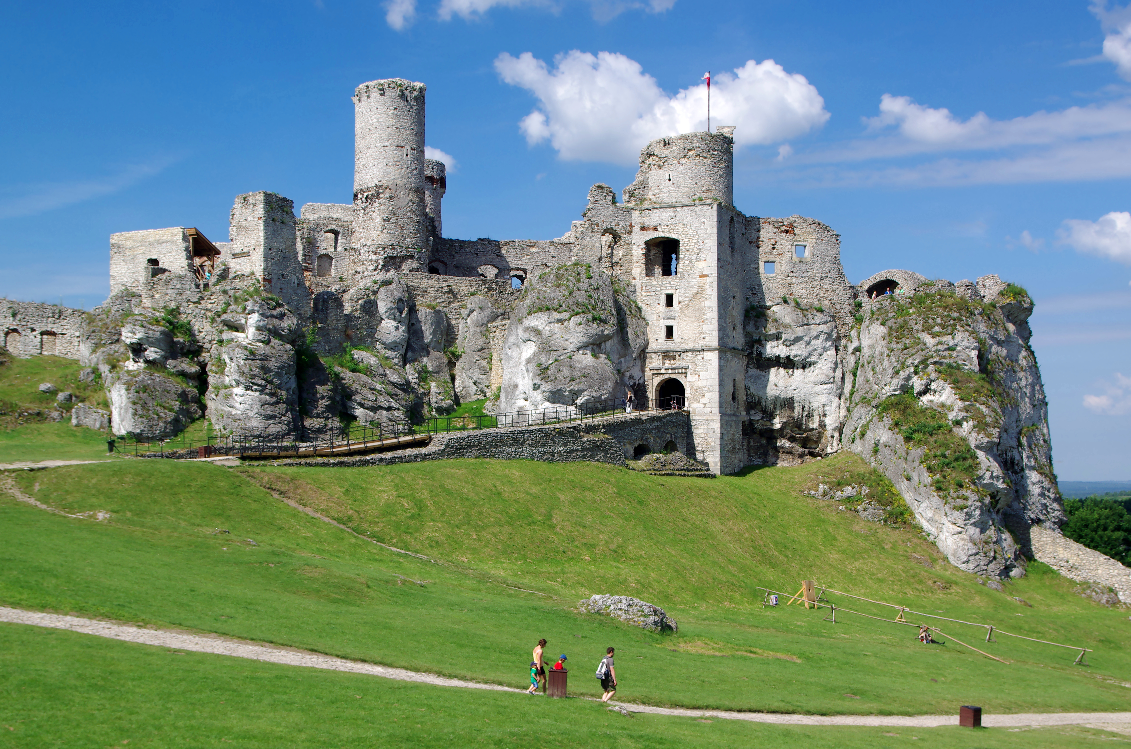 Castle in Ogrodzieniec